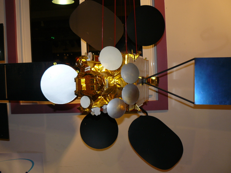 1/10 scale mockup of an Eutelsat W3 satellite, a Spacebus 4000C3Image does NOT show W3B (for comparison actual W3B photo)